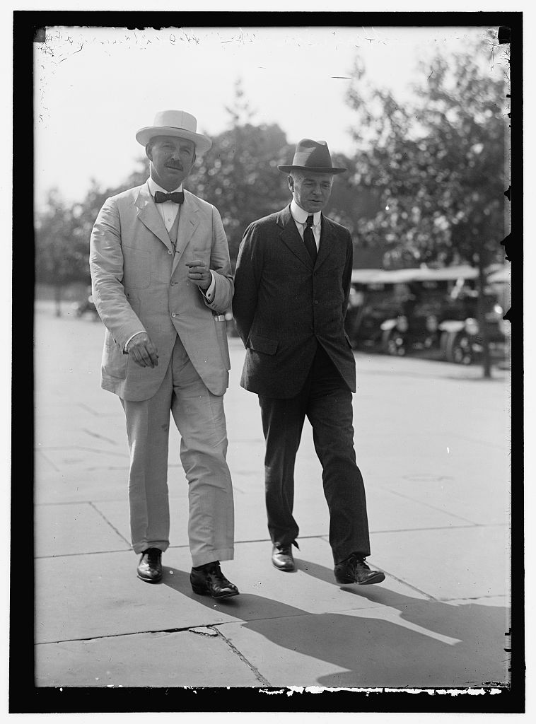 Fairfax Harrison (1869 - 1938) (on right), president of the Southern Railway System, and Chairman of the Special Commission on National Defense, American Railway Association, with Hale Holden, who was later the Chairman of the Southern Railway System in 1932.